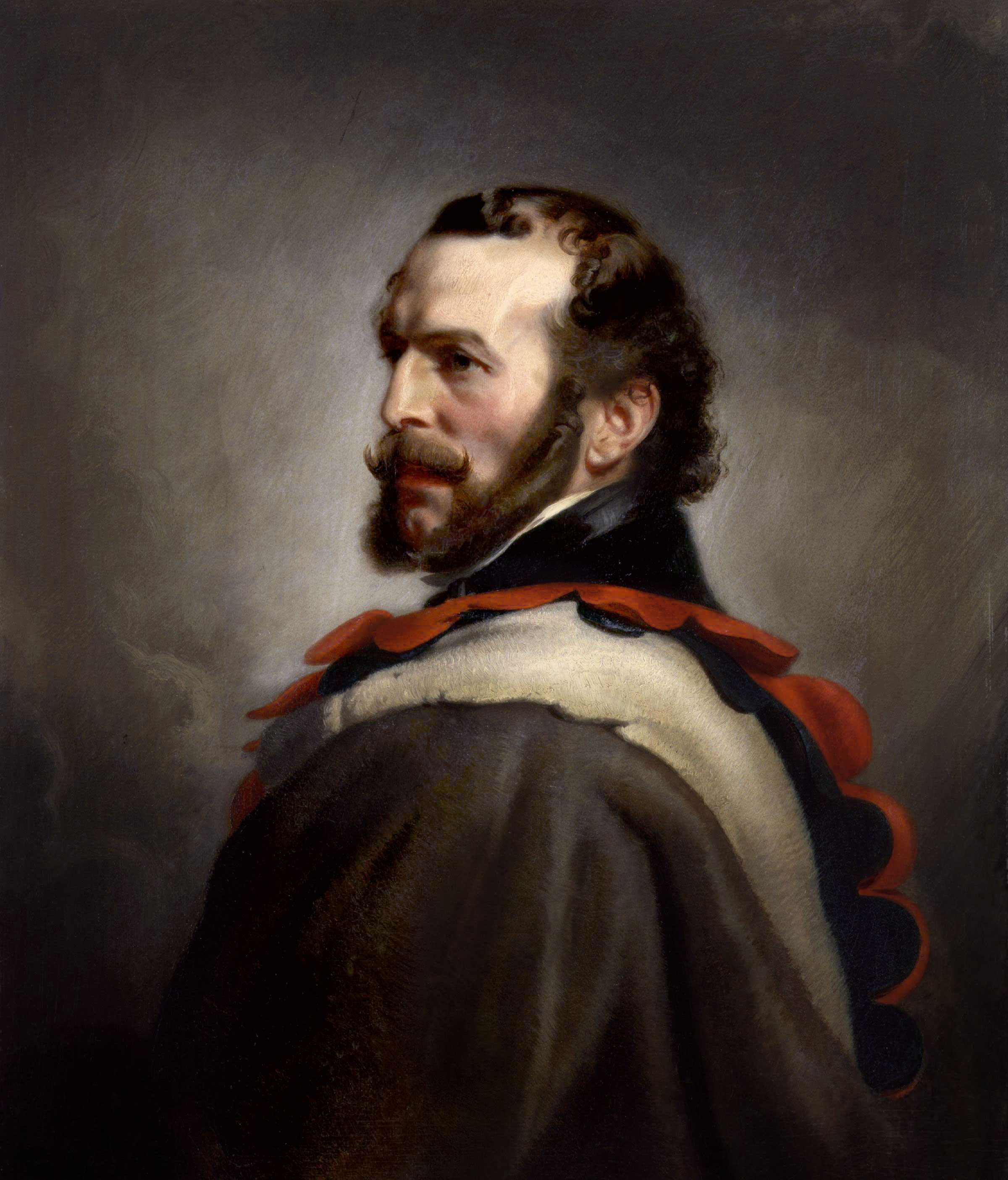 John Rae, by Stephen Pearce (died 1904). All images in this batch have been confirmed as author died before 1939 according to the official death date listed by the NPG.